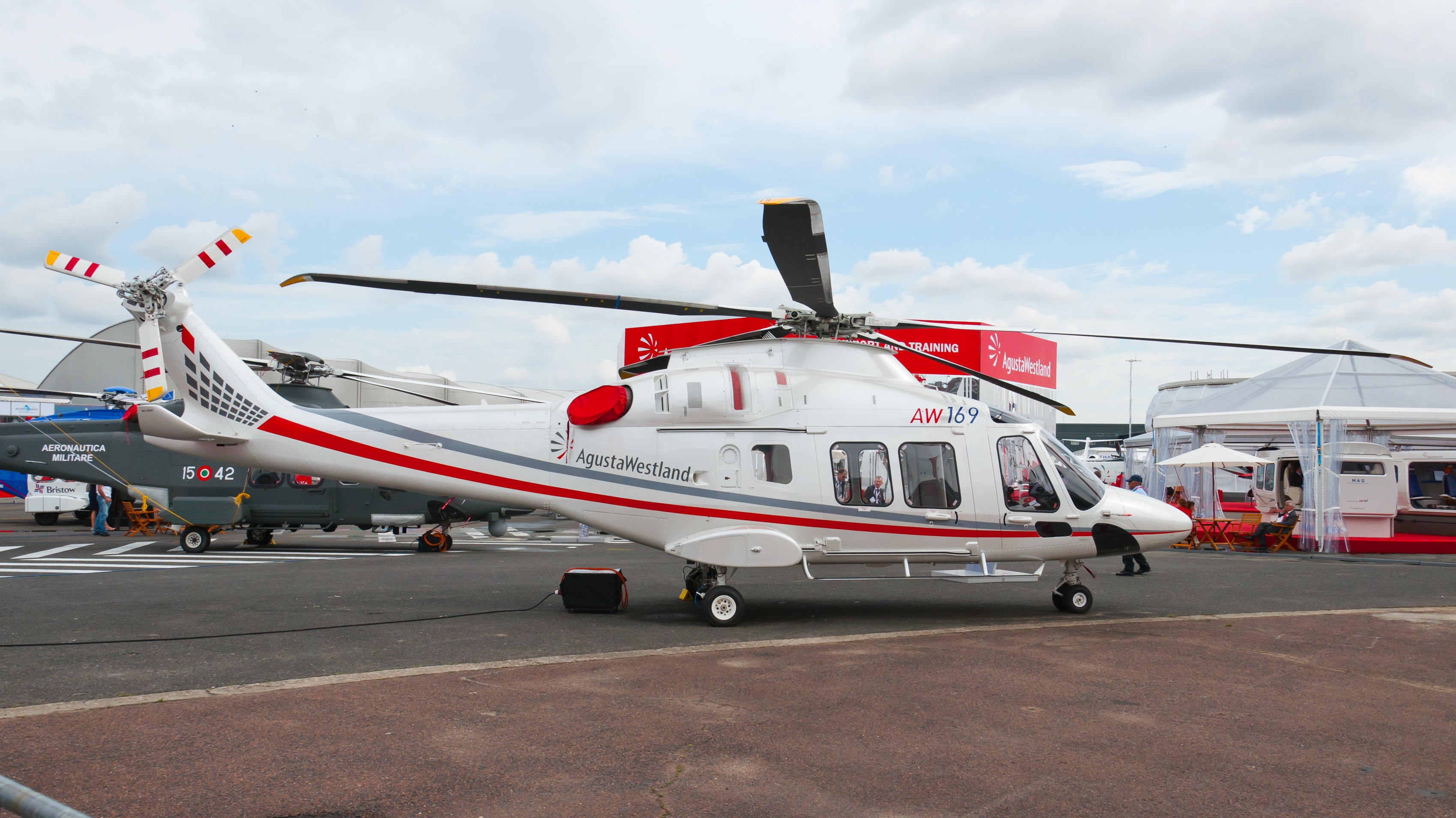 AgustaWestland AW169 at Paris Air Show 2013.